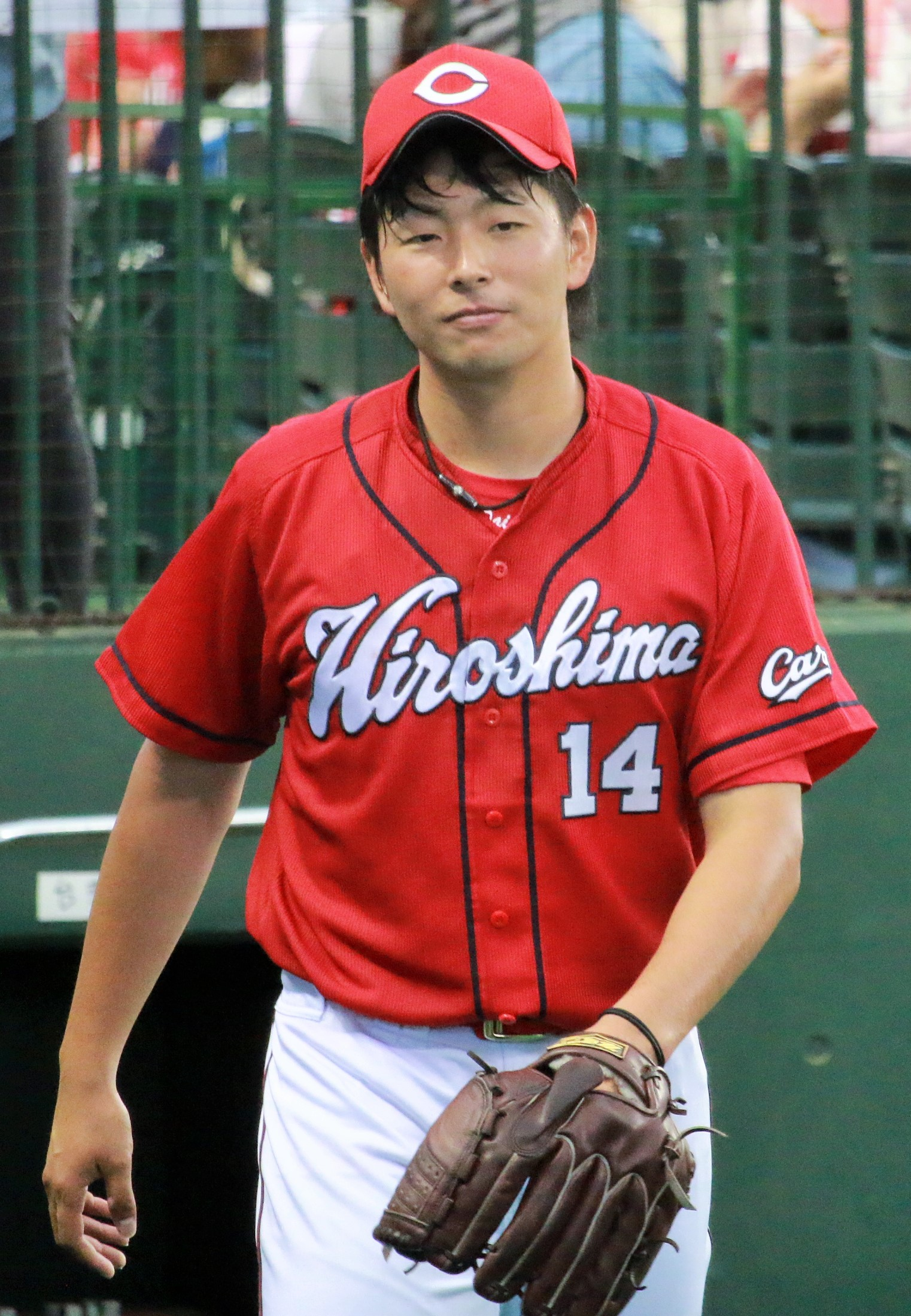 Daichi Ohsera, pitcher of the Hiroshima Toyo Carp, at Seibu Dome.